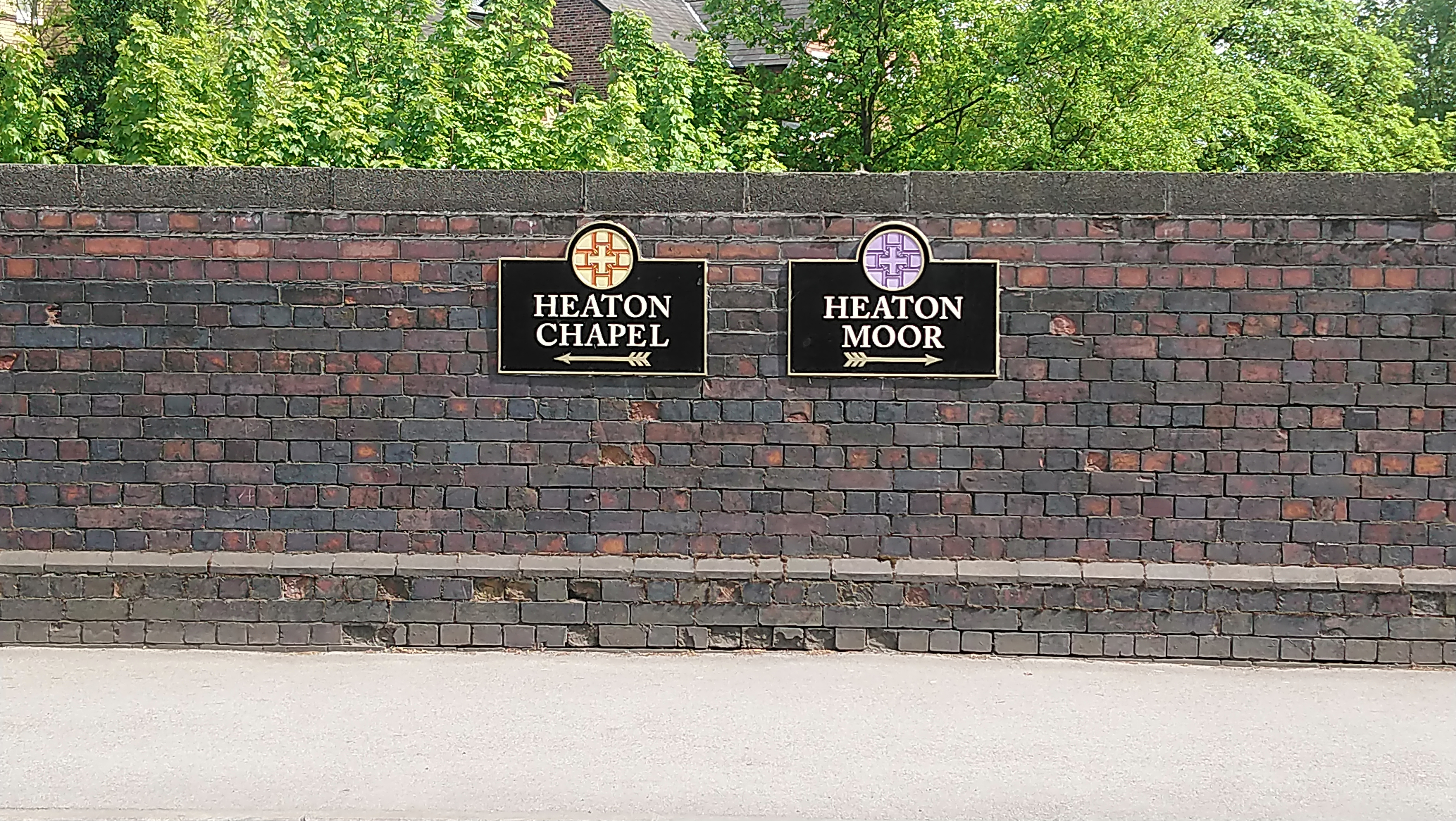 Signs point north-east to Heaton Chapel and south-west to Heaton Moor.